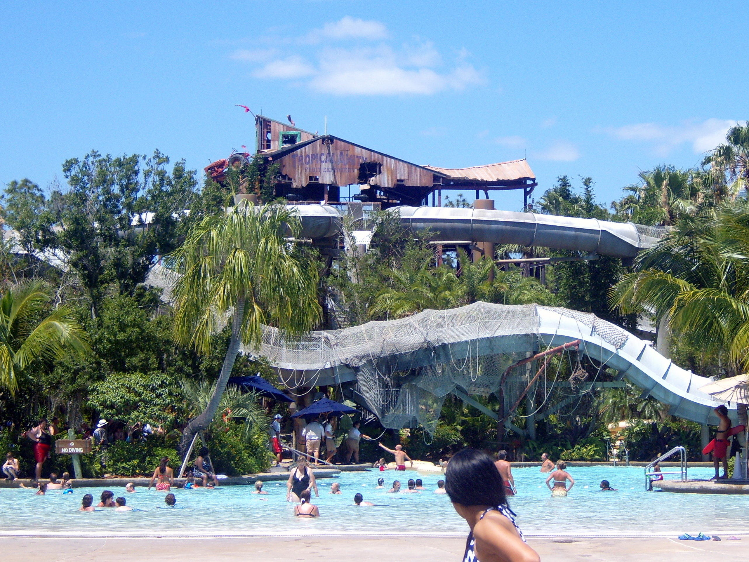 The Crush 'n' Gusher in Typhoon Lagoon @ Walt Disney World Orlando